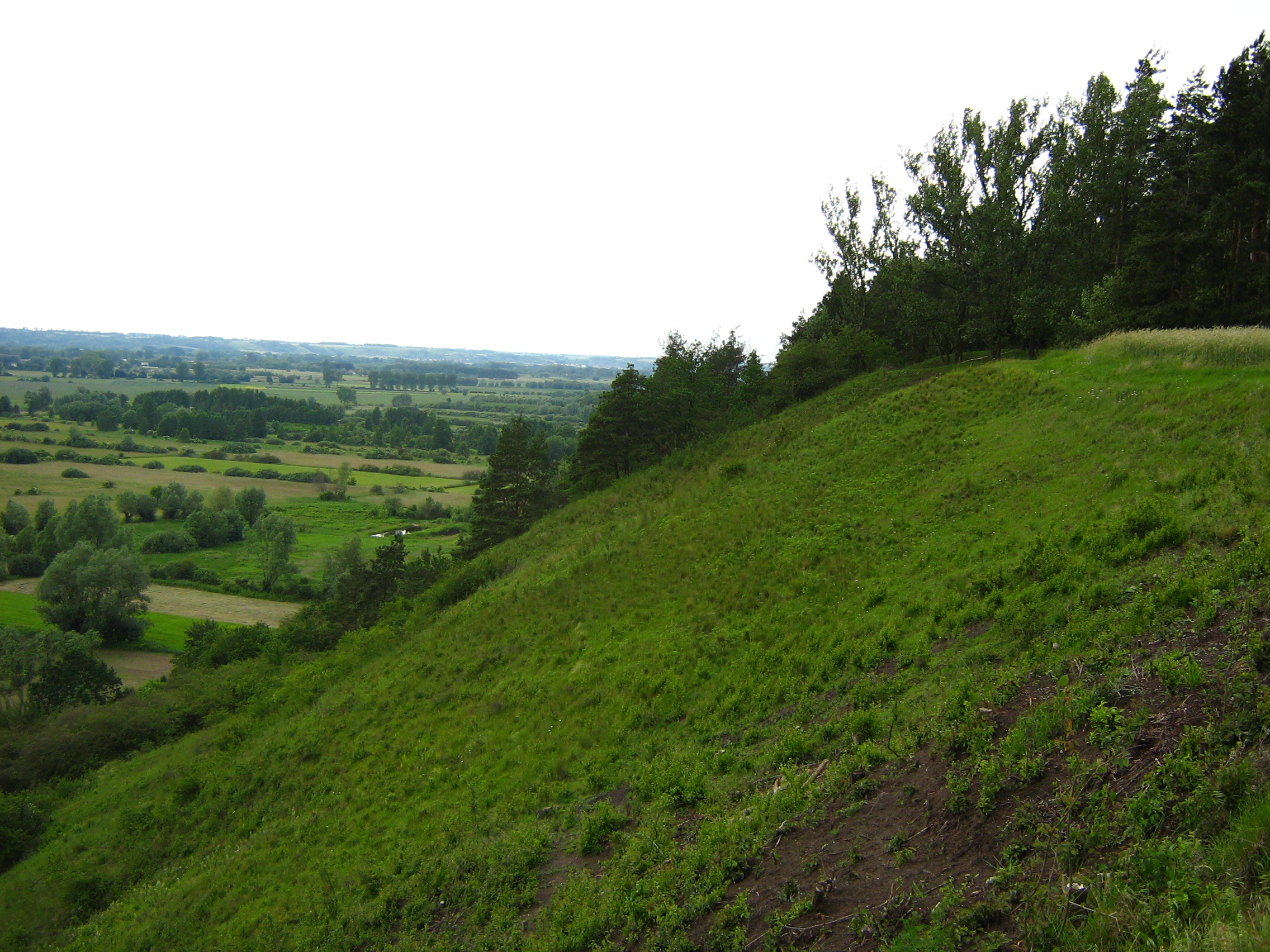 Zbocza Płutowskie Nature Reserve (Plutowo Cliff). Vistula valley. Northward view.